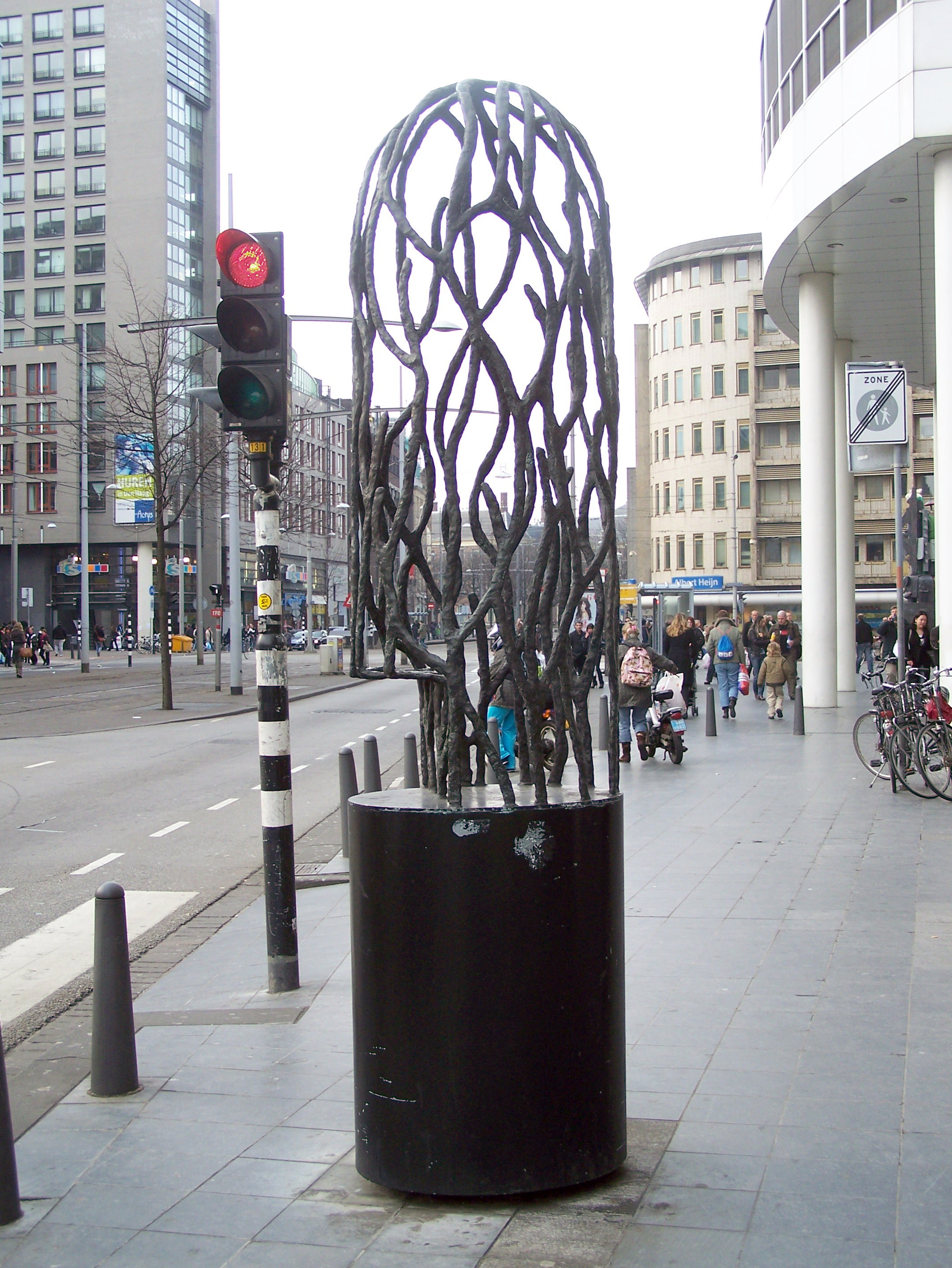 Sculpture (no title) made by Sigurdur Gudmundsson in 1996. Placed at the Spui in The Hague, part of the Sokkelplan